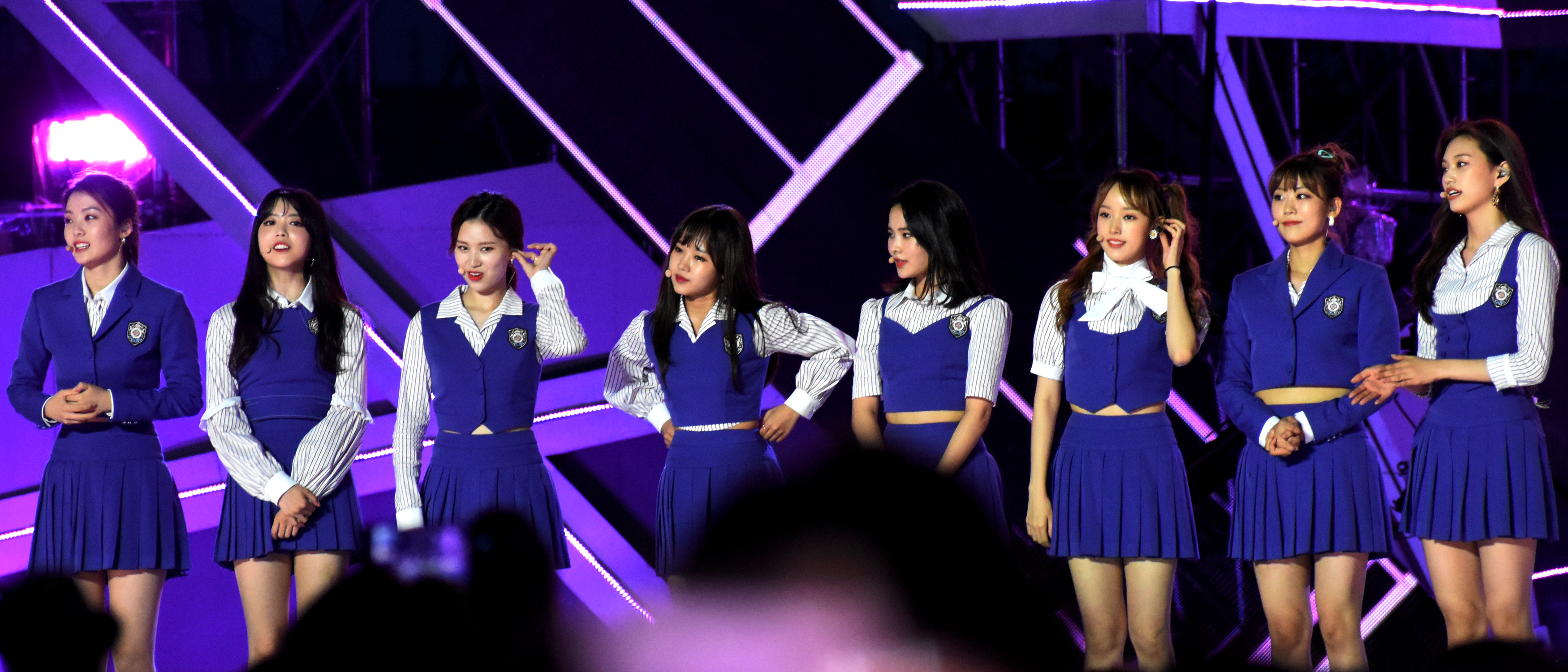 Weki Meki at the 2018 Incheon Airport Sky Festival on September 2, 2018.